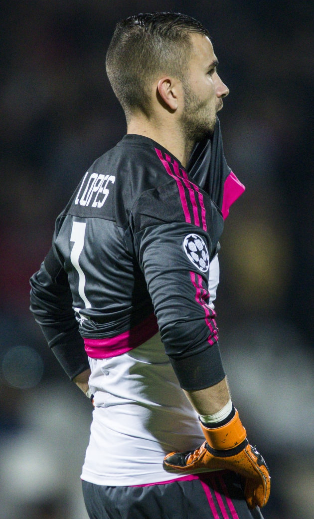 Anthony Lopes